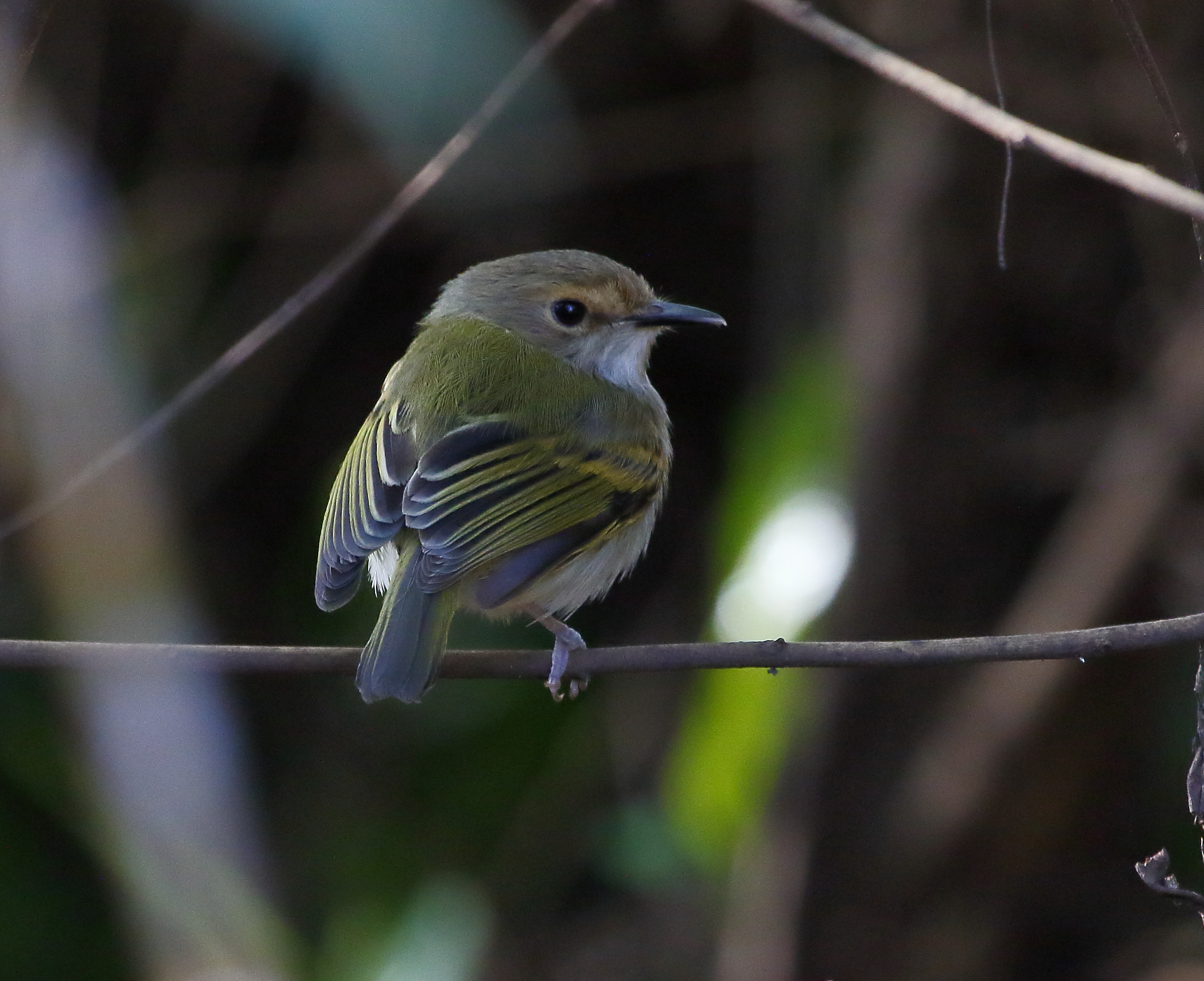 Rusty-fronted tody-flycatcher at Aquidauana - MS - Brazil